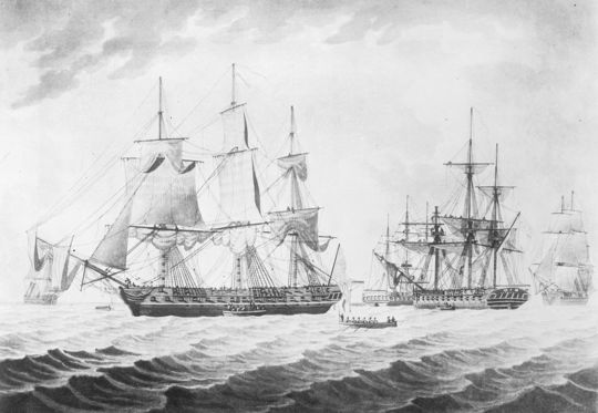 To Captain H Hope... of His Majesty's Frigate Endymion... the Morning after the Action with the American United States Frigate President, Jany 16th 1814...; aquatint